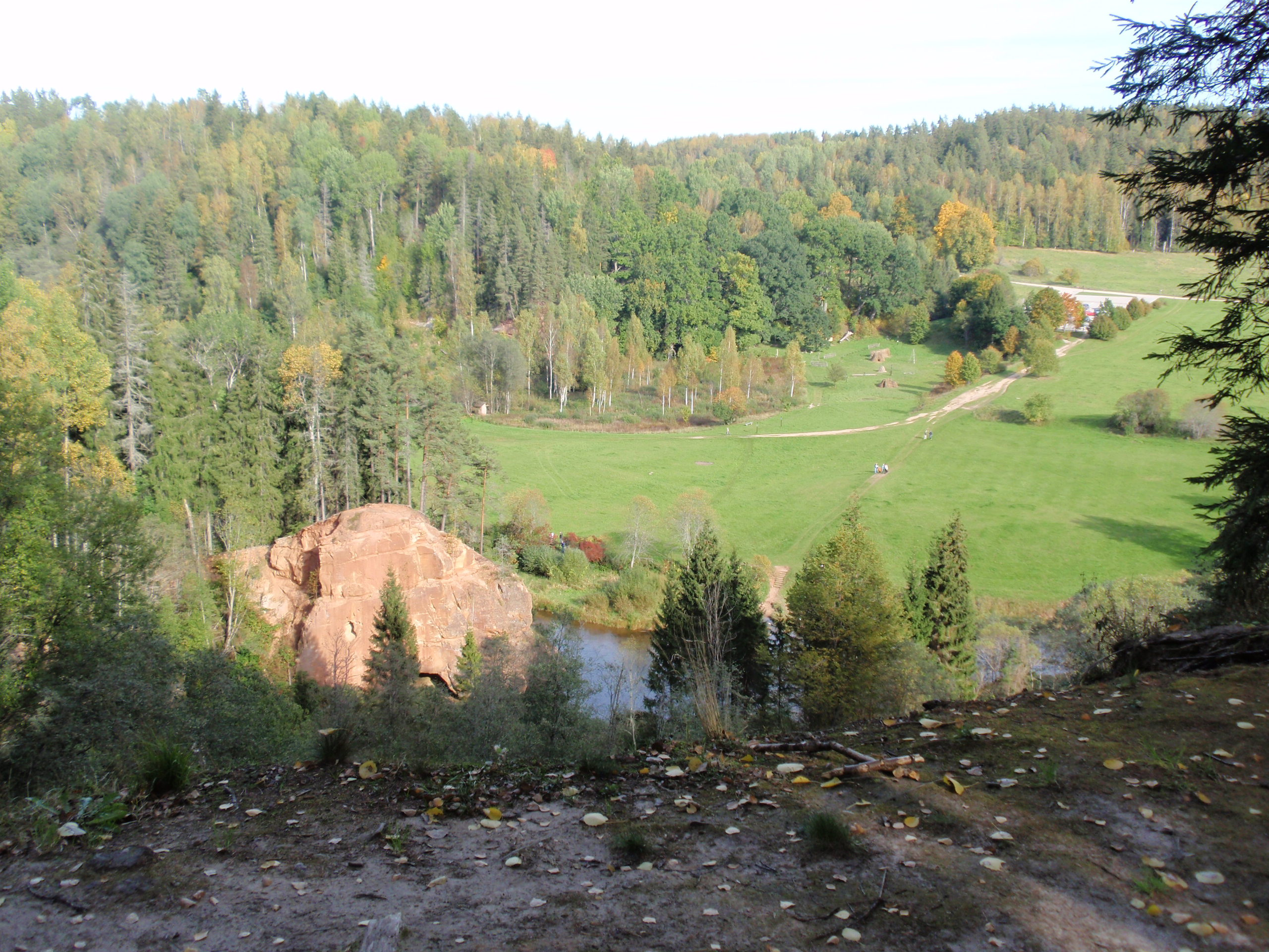 View from the top of Zvārtes rock.